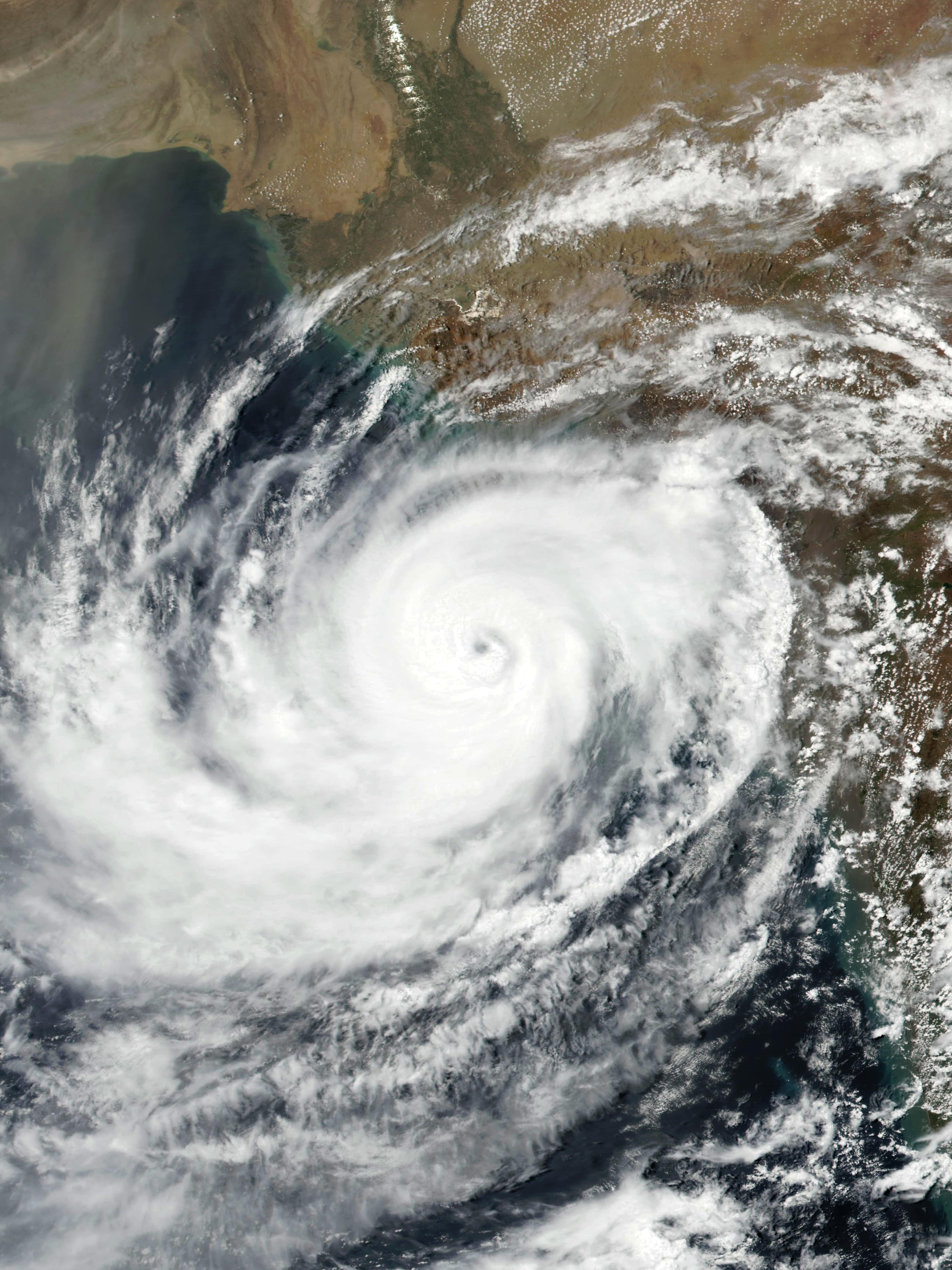 Very Severe Cyclonic Storm Vayu at peak intensity just off the coast of Gujarat, India, on 13 June 2019. Three-minute sustained winds are at 150 km/h (90 mph), and one-minute sustained winds are about to reach 185 km/h (115 mph). Vayu is the strongest tropical cyclone to affect the Saurashtra Peninsula in 21 years.